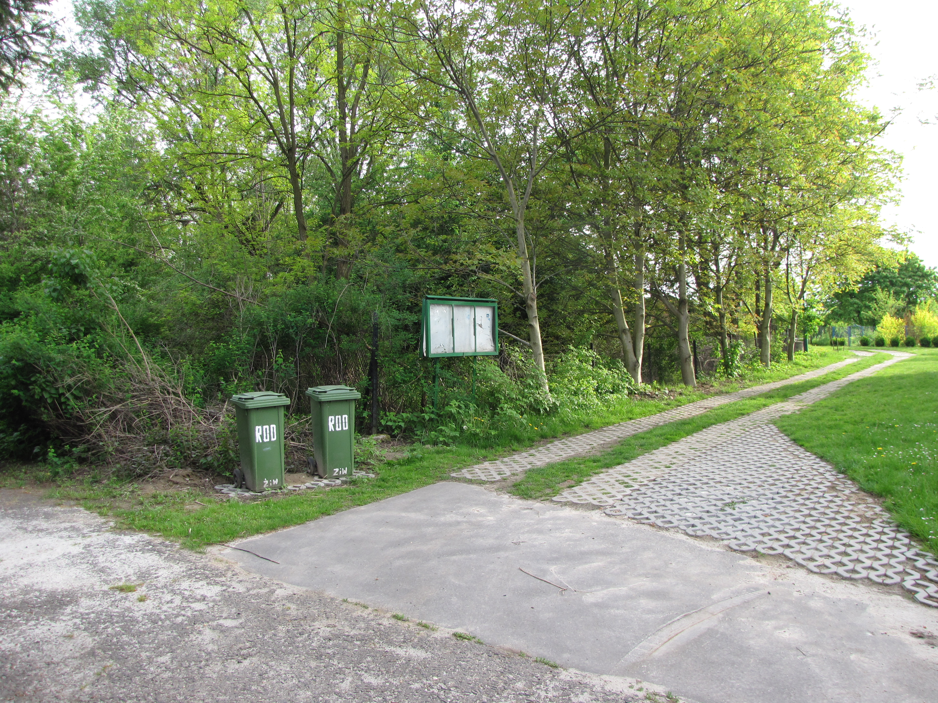 Remains of the semi-solid Fort no. 41 Bronowice Małe from built in 1884-85, part of the Krakow Fortress, now inside Żwirki i Wigury allotments. Majora Łupaszki street, District VI Bronowice, Kraków, Poland